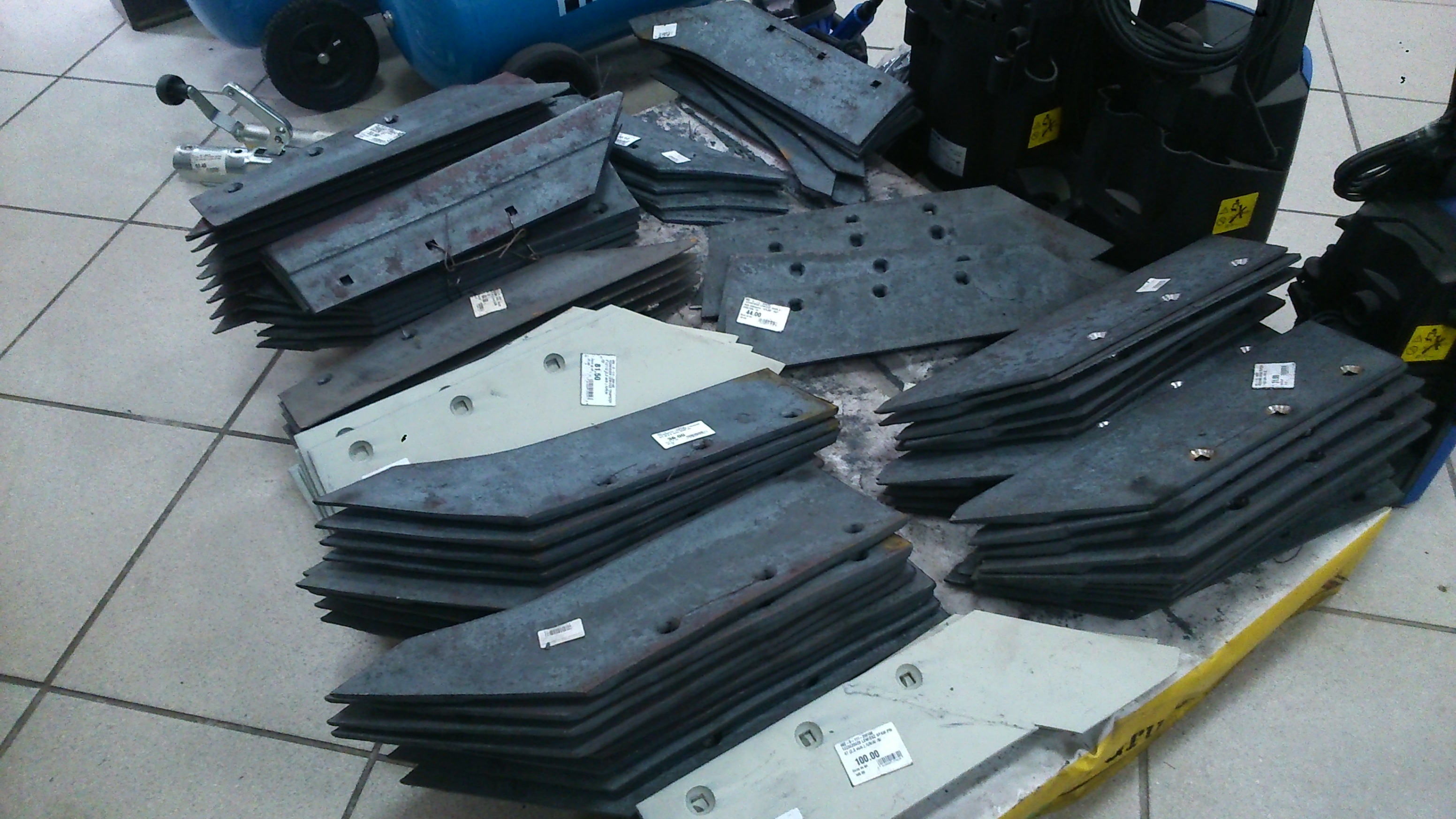 Plowshares ready for selling in shop.